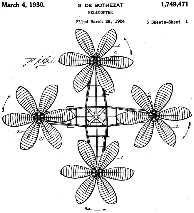 Top view of de Bothezat quadcopter.